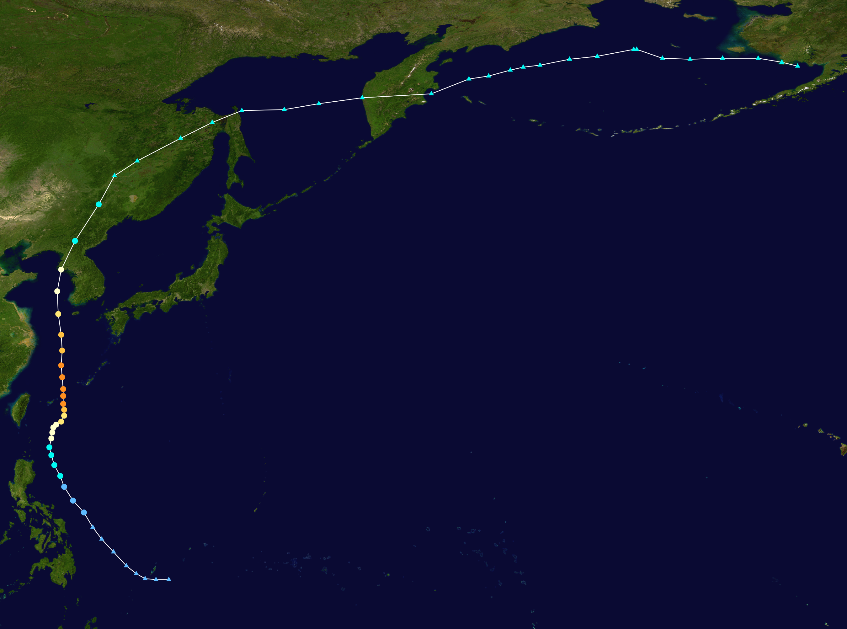 Track map of Typhoon Lingling of the 2019 Pacific typhoon season. The points show the location of the storm at 6-hour intervals. The colour represents the storm's maximum sustained wind speeds as classified in the Saffir–Simpson scale (see below), and the shape of the data points represent the nature of the storm, according to the legend below. Saffir–Simpson scale Tropical depression≤38 mph≤62 km/h Category 3111–129 mph178–208 km/h Tropical storm39–73 mph63–118 km/h Category 4130–156 mph209–251 km/h Category 174–95 mph119–153 km/h Category 5≥157 mph≥252 km/h Category 296–110 mph154–177 km/h Unknown Storm type Tropical cyclone Subtropical cyclone Extratropical cyclone / Remnant low / Tropical disturbance / Monsoon depression